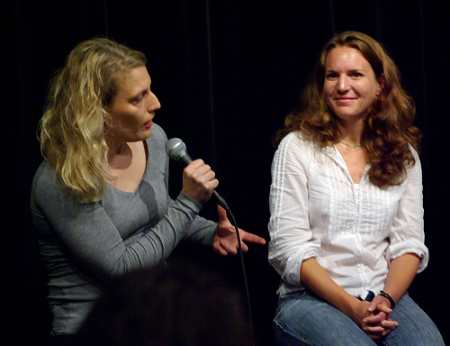 German film director Brigitte Bertele (left) and screenwriter Johanna Stuttmann